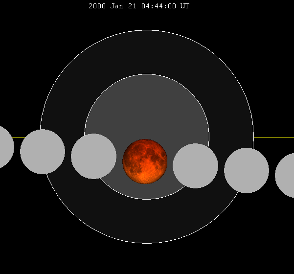 January 2000 lunar eclipse chart of moon's total lunar eclipse path through the earth's shadow. thumb